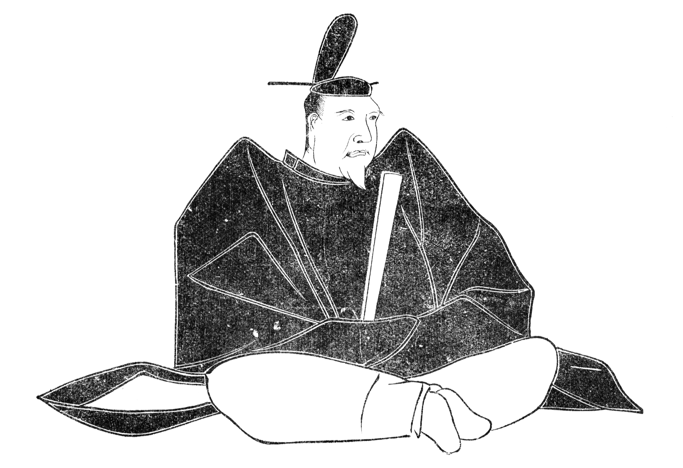 Statue of Ashikaga Sadauji